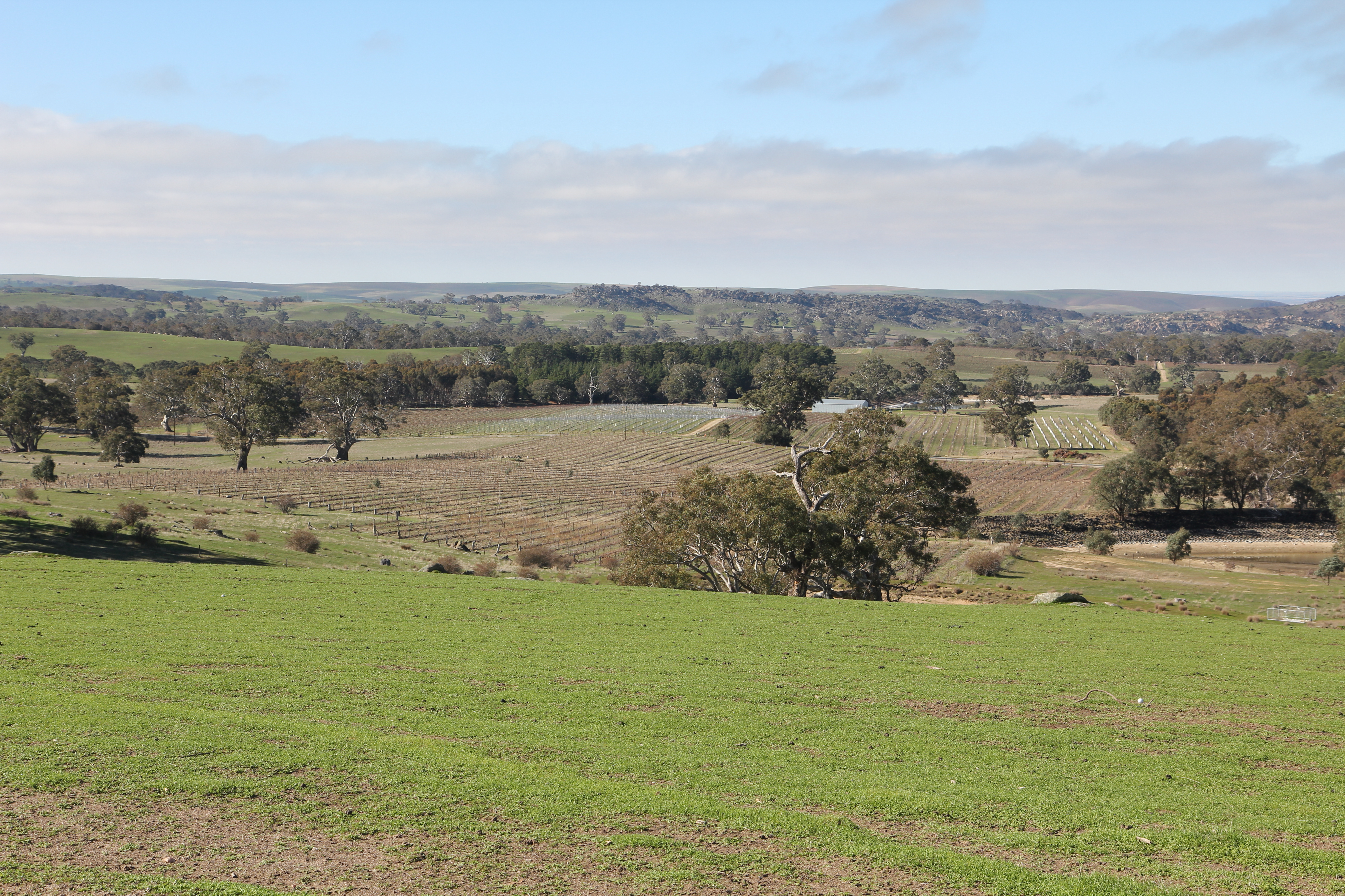 Vineyards in winter in the Eden Valley, South Australia, taken from a lookout.